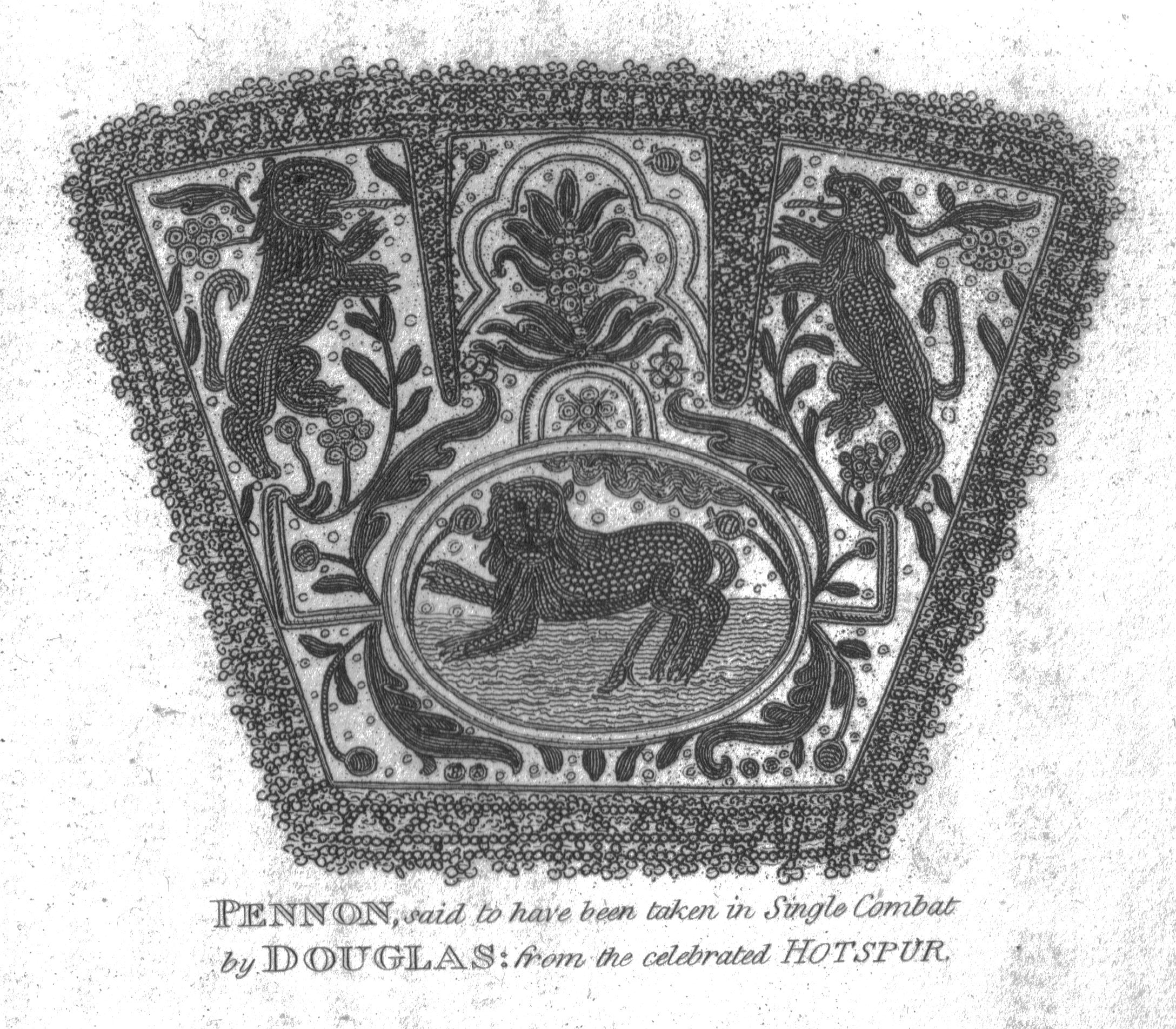 The Pennon or banner flown by Sir Henry Percy aka Harry Hotspur and taken from him in combat by James Douglas, Earl of Douglas.